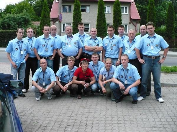 Marshall